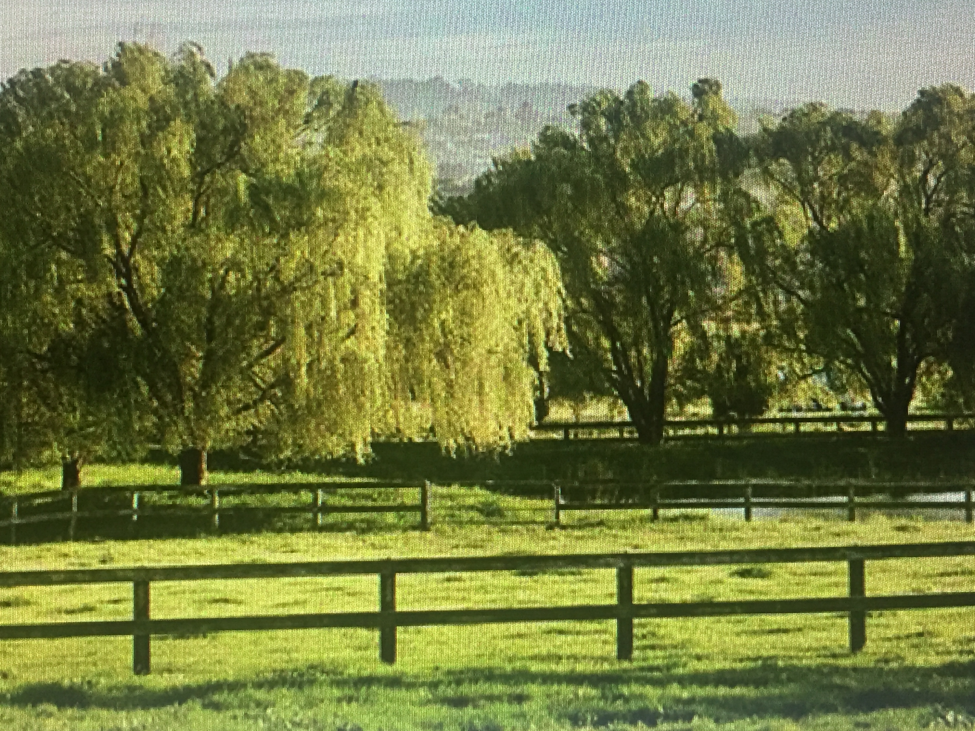 Tulliallan Elm Trees Distant View